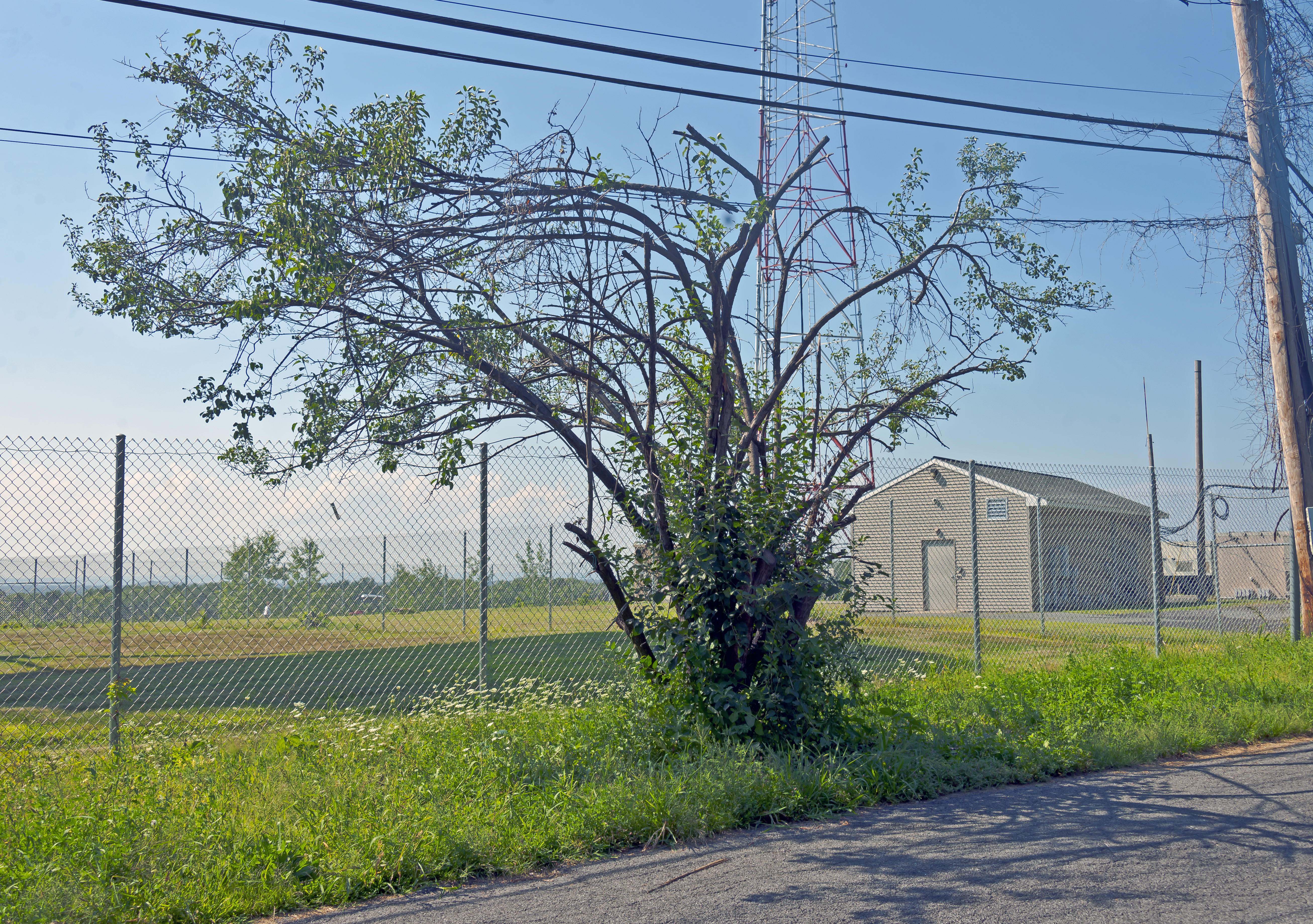 The highest point in Albany, NY, USA, at 458 ft (115 m) above sea level.